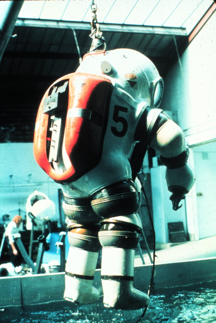 JIM, a One-Atmosphere Armored Dive Suit (OMADS).